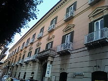 Palazzo Leonetti